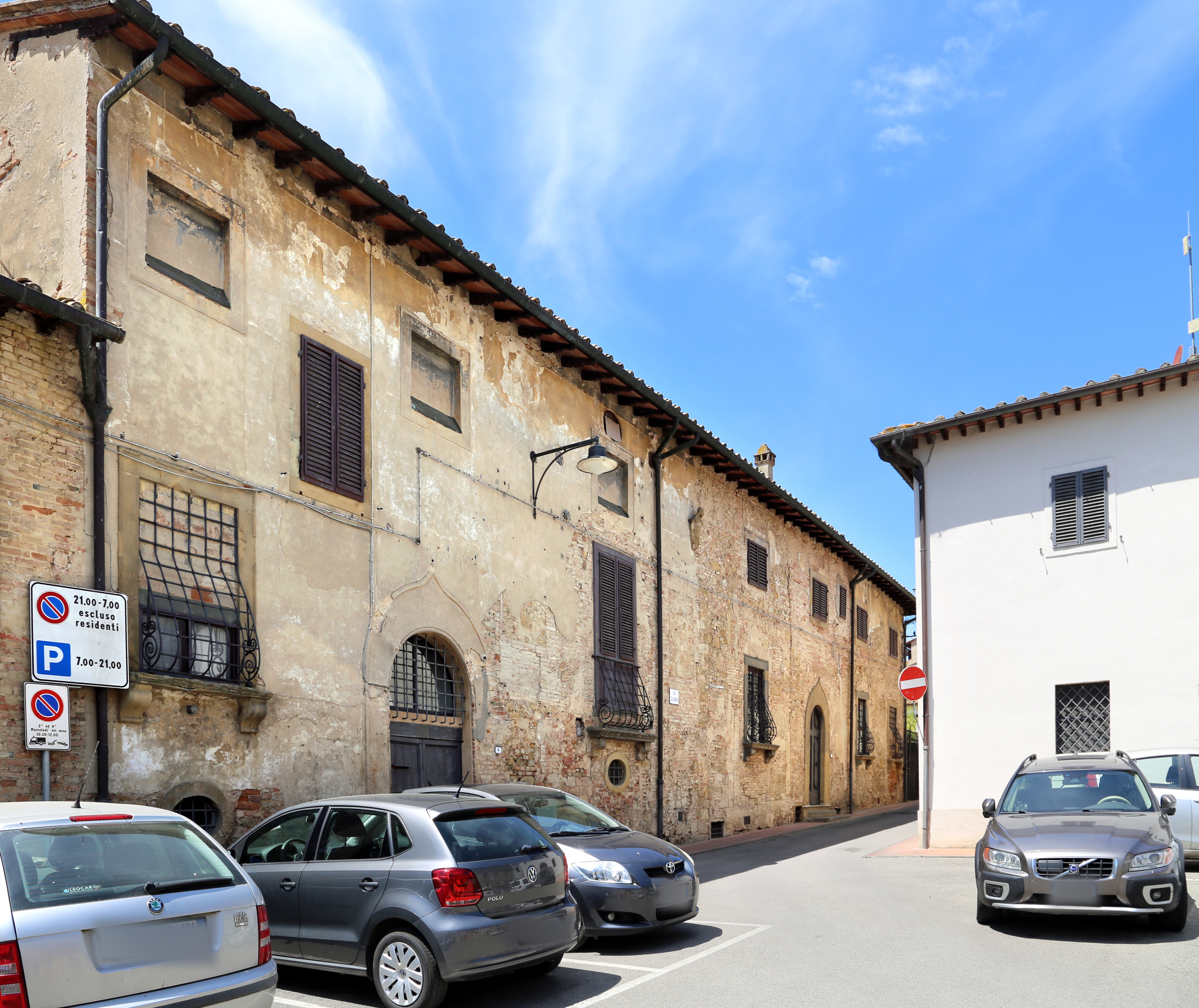 Villa Guicciardini-Majnoni (Vico d'Elsa)